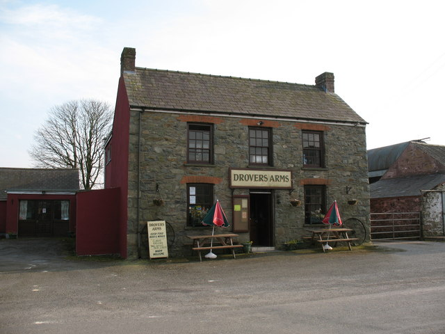 The Drovers Arms, Puncheston Village pub at Puncheston, which is on the SW side of the Preseli Hills. Maybe the cattle drovers came this way.